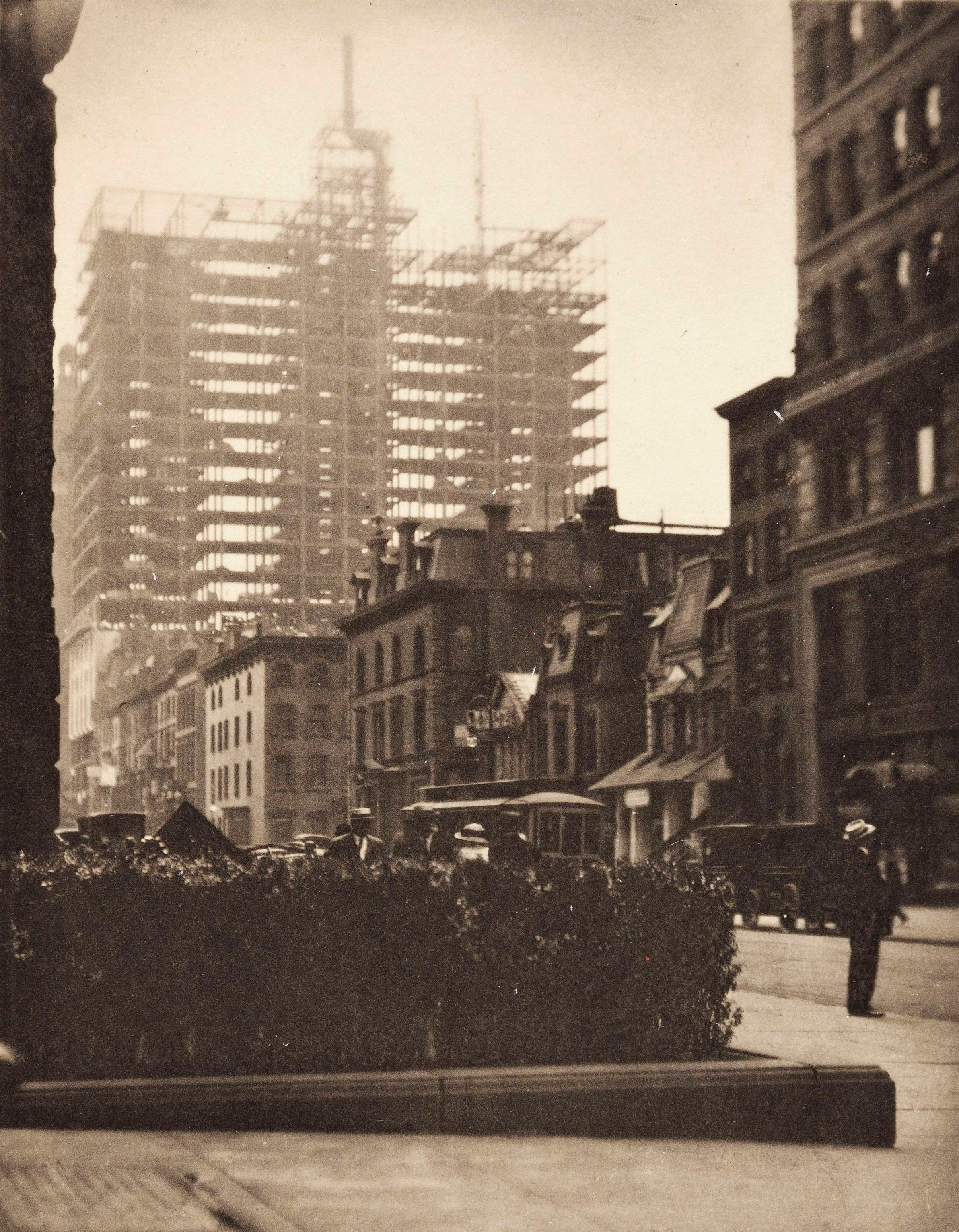 "Old and New New York" by Alfred Stieglitz. The photo was most likely taken on the North side of 34th, just east of 5th Avenue, facing east, with the building under construction being the Vanderbilt Hotel which stands along the east side of Park, between 33rd and 34th. The tower in the background is the 71st Regiment Armory (now demolished), which sat on the southwest side of Park and 34th.[1]